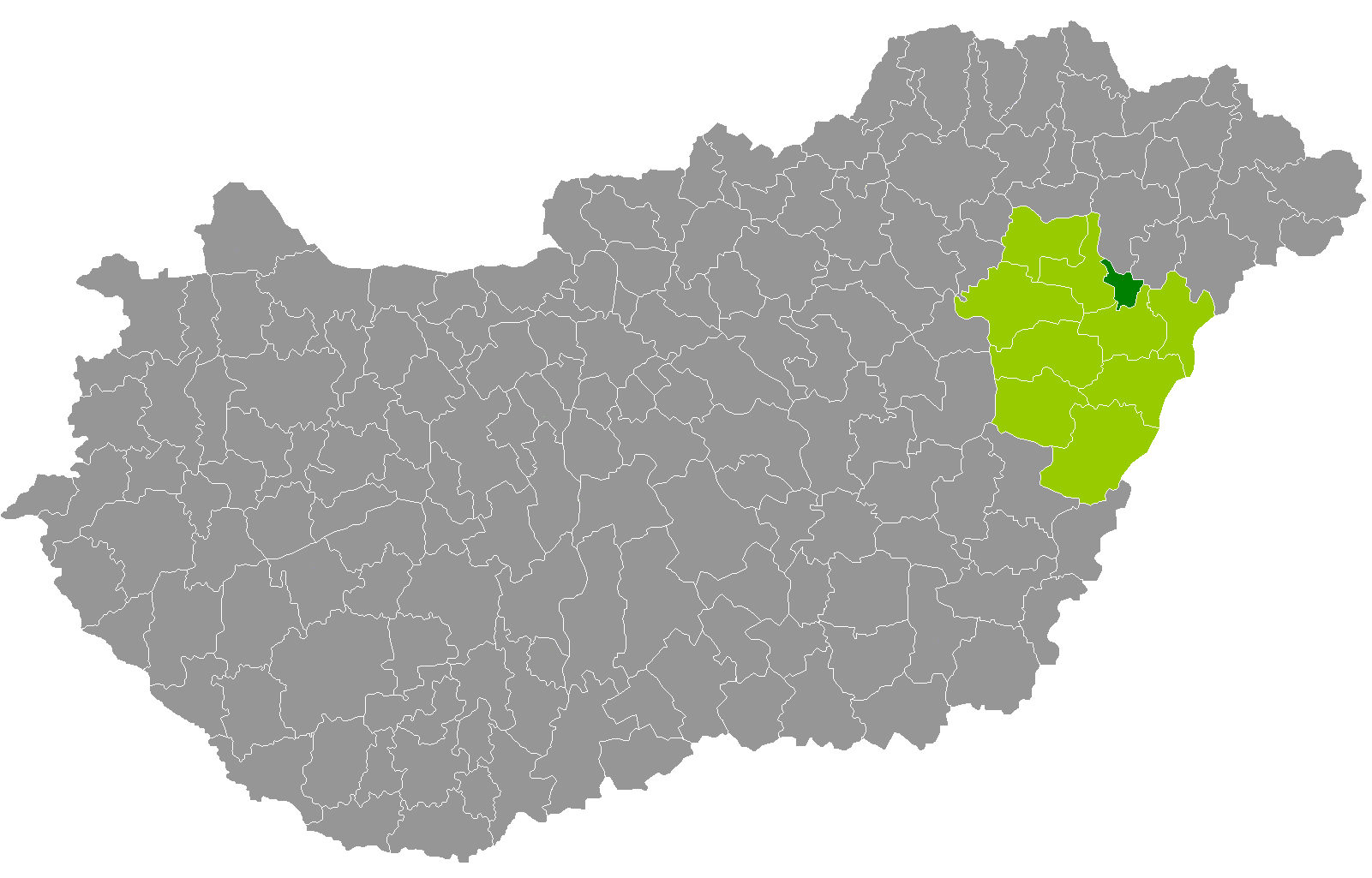 Location of Hajdúhadház District, Hajdú-Bihar, Hungary